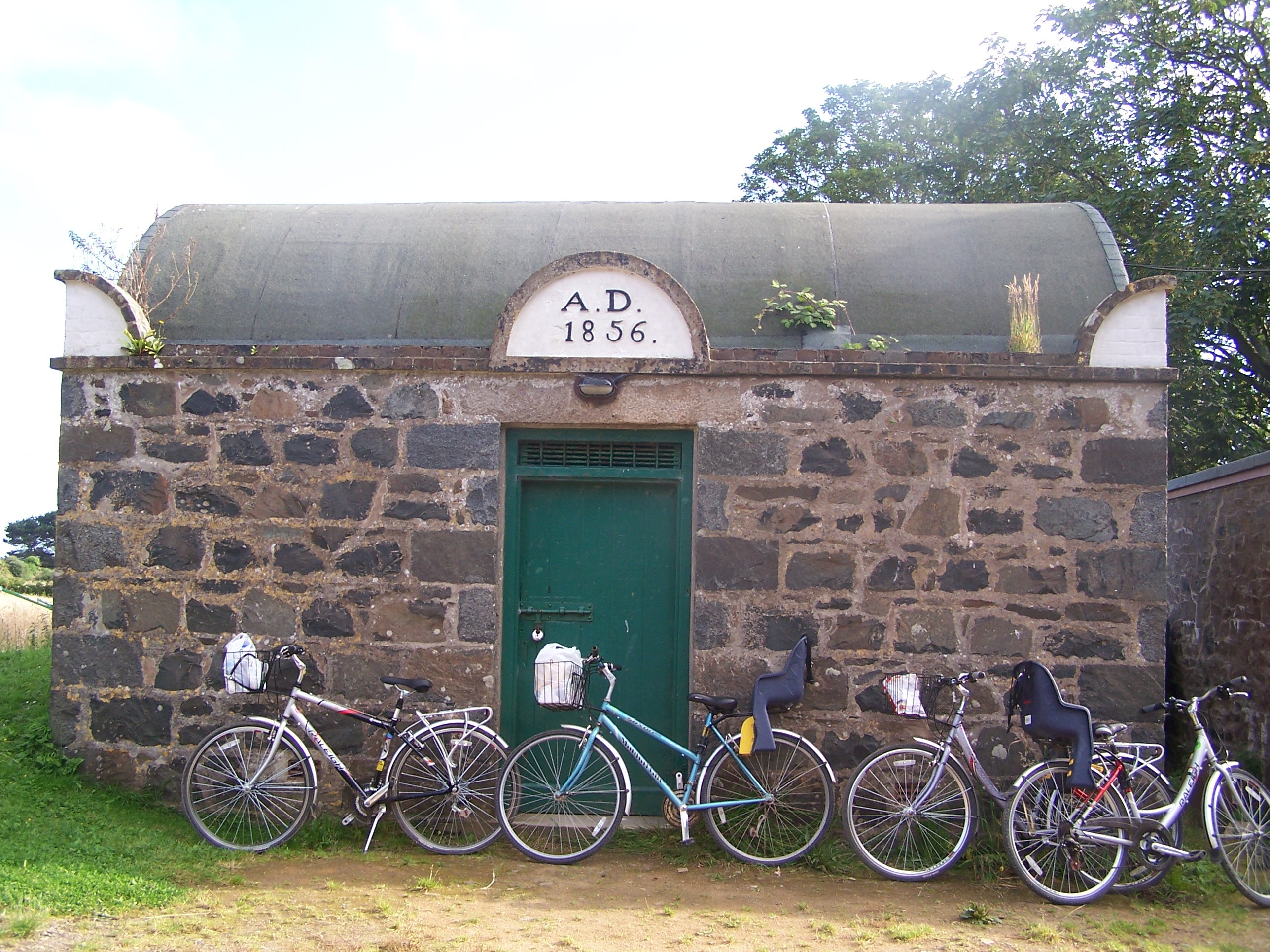 The Prison of Sark